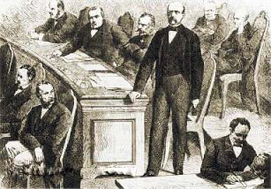 Drawing of Prussian leader Otto von Bismarck standing at his desk in the North German Parliament